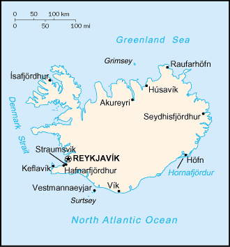 Map of Iceland . Слика:Ic-map.png Category:Maps of Iceland